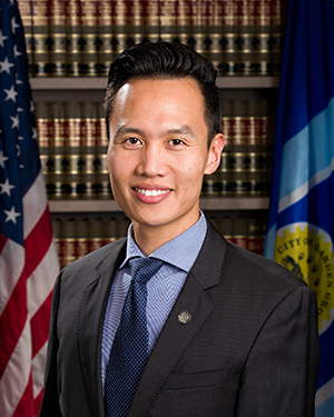 Official city photograph of Garden Grove, California Mayor, Bao Nguyen